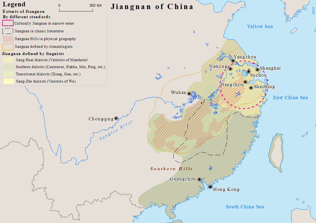 Map showing the extents of Jiangnan region of China by different standards